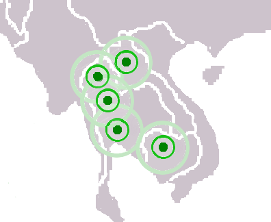 mandalas circa 1360; created by User: Markalexander100 from Image:BlankMap-World.png